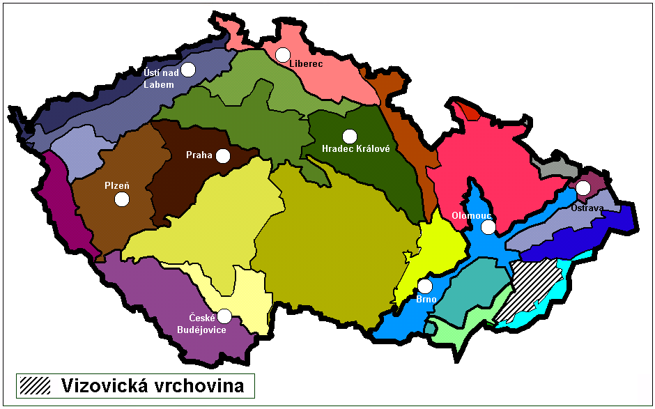 Situation of the Vizovická vrchovina in the Czech Republic